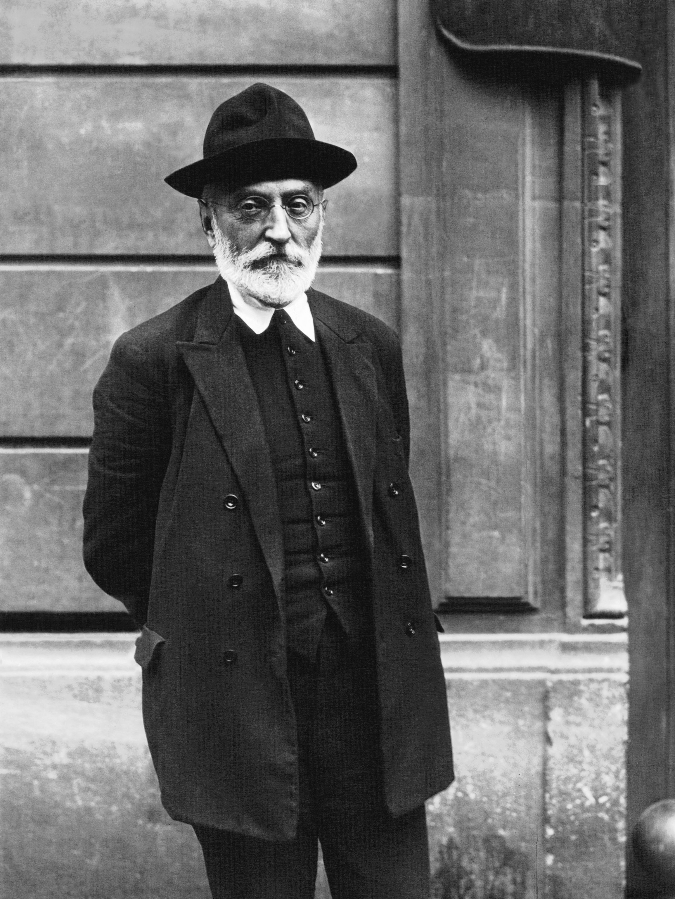 Miguel de Unamuno, Spanish essayist, novelist, poet, playwright and philosopher, in 1921.(Cropped print.)